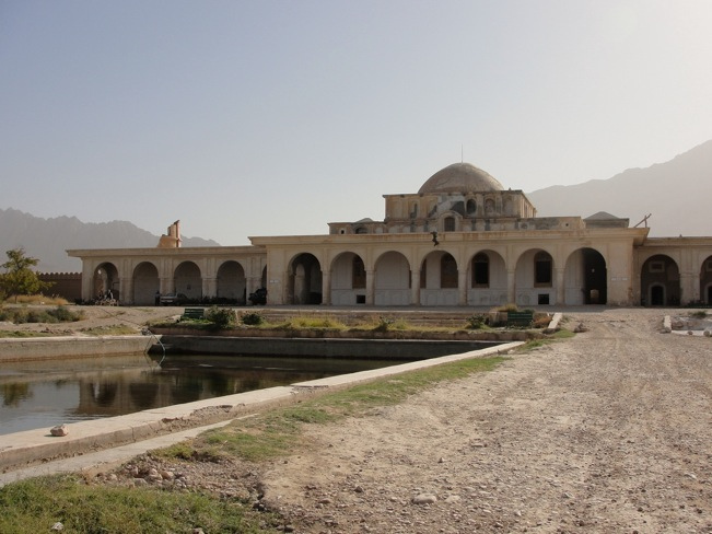 Palace in Tashkurgan in the Indian colonial style, late 19th century.